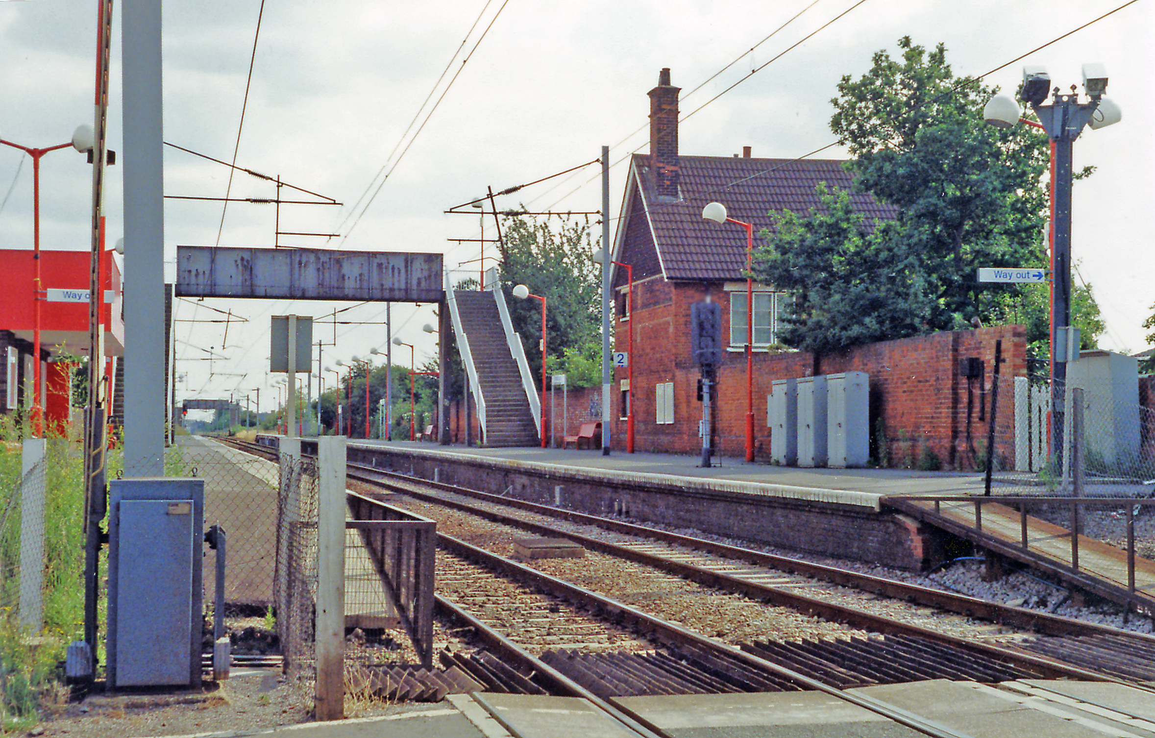 Enfield Lock station, 1991. View southward, towards Tottenham Hale and Stratford/London Liverpool Street: ex-GER London - Bishops Stortford - Cambridge (Lea Valley) main line, electrified May 1969